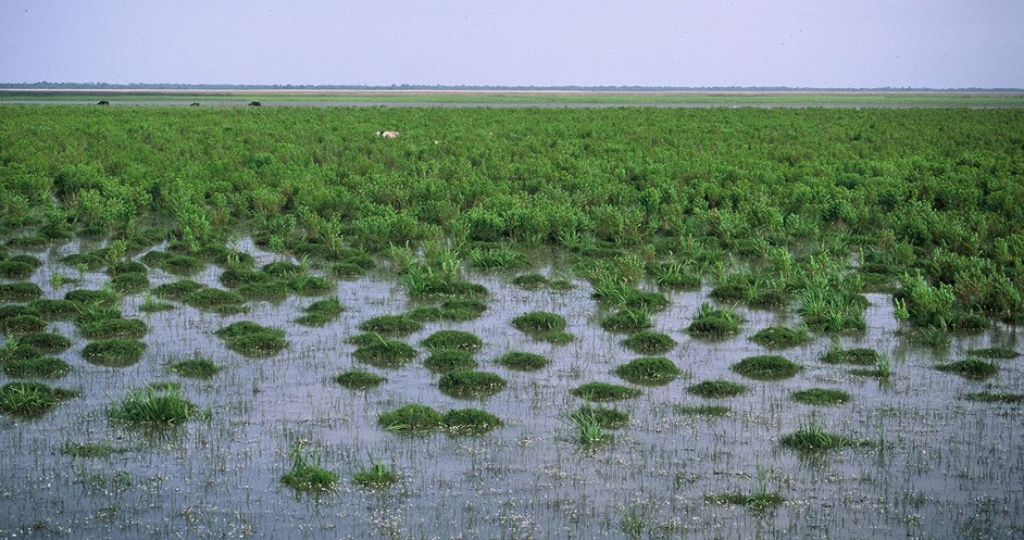 Coastal Shrubs at Kızılırmak Delta